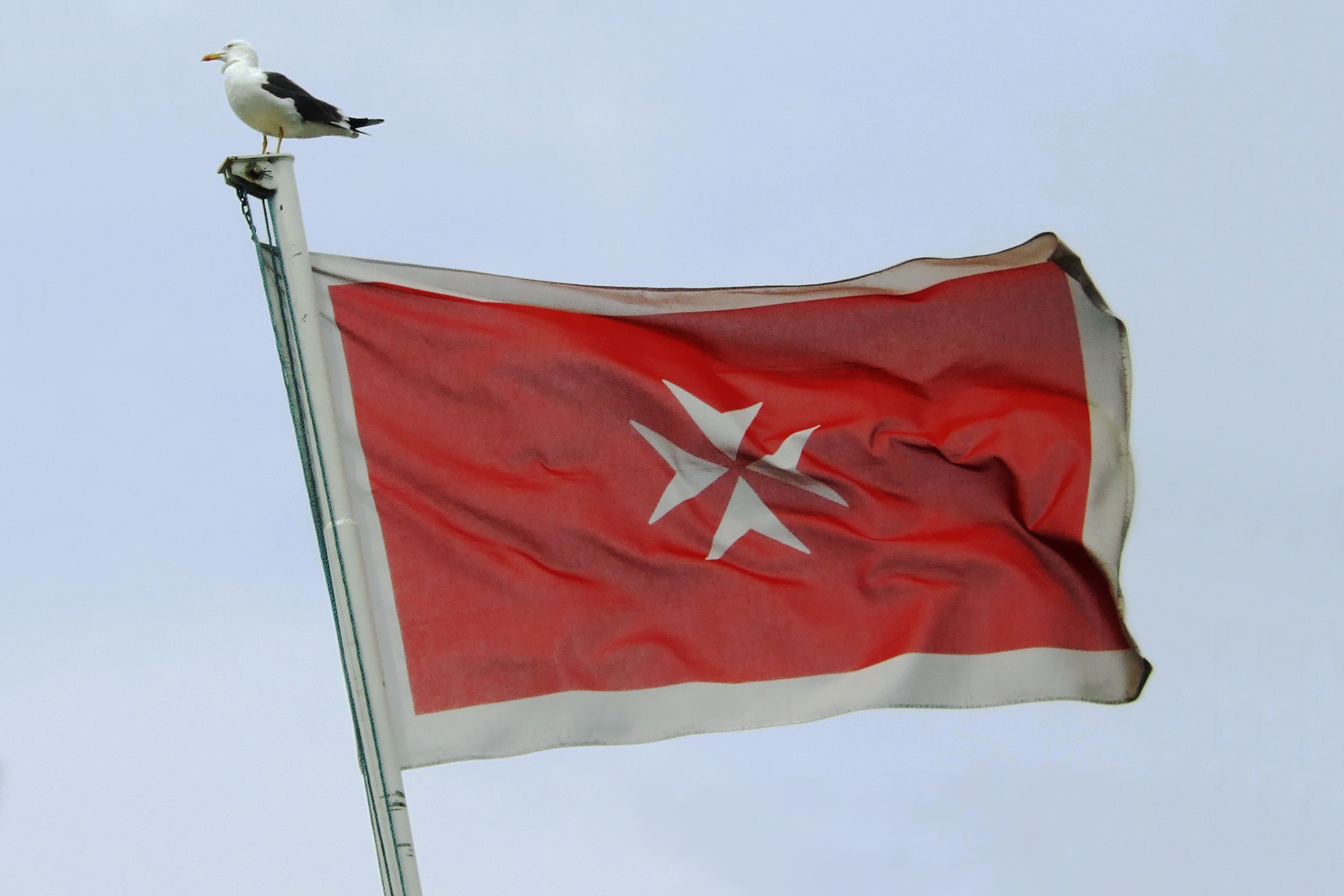 Photo of Maritime Flag of Malta, Hoisted with sea gull on mast.